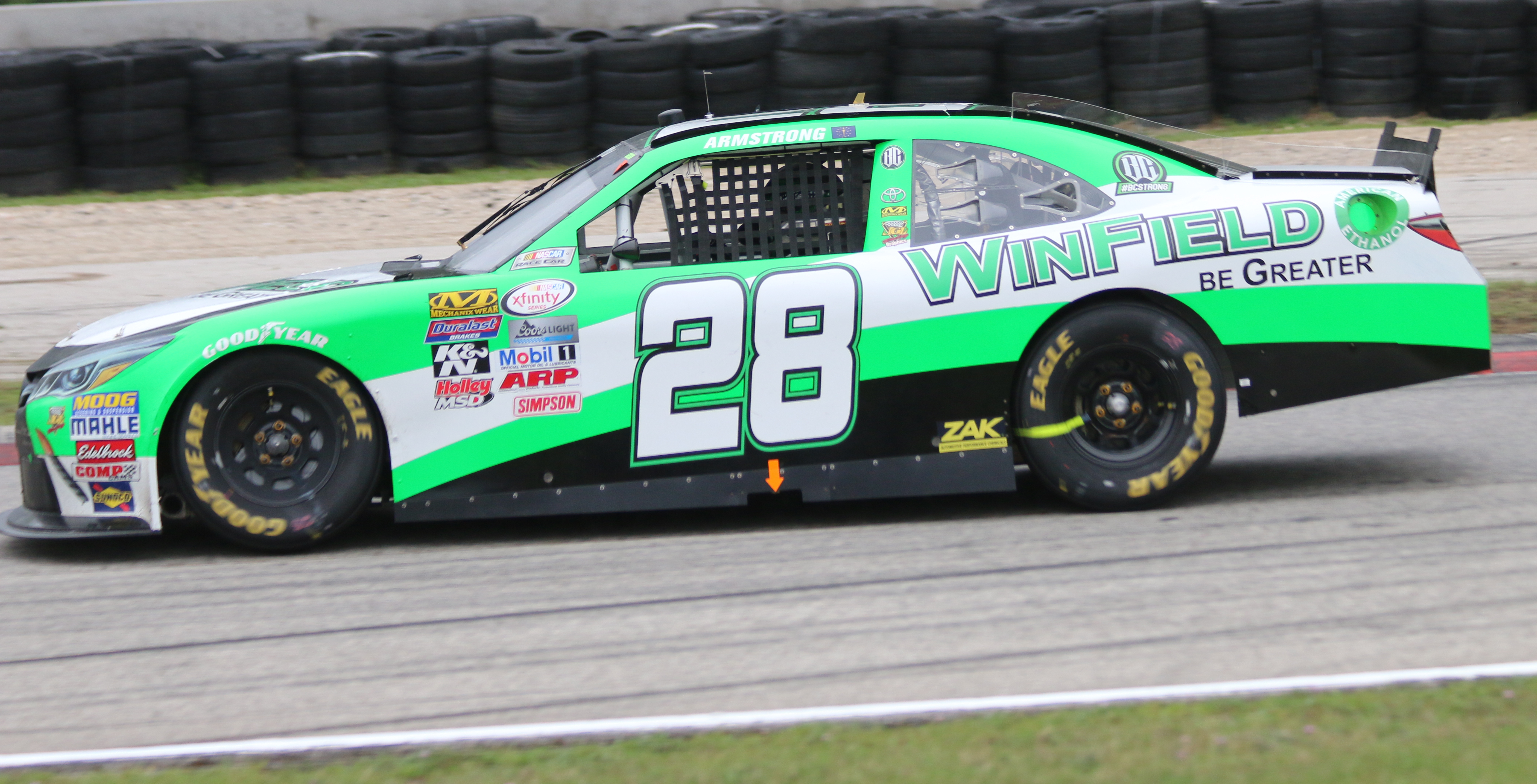 The Toyota Camry of Dakoda Armstrong at the NASCAR Xfinity Series Road America 180.